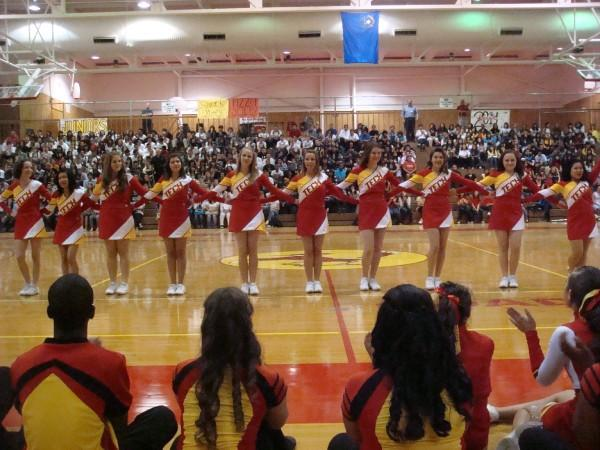 Cheerleaders